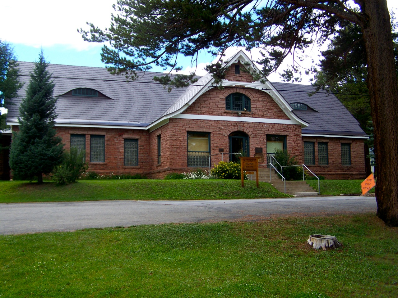 Leadville National Fish Hatchery near Leadville, Colorado